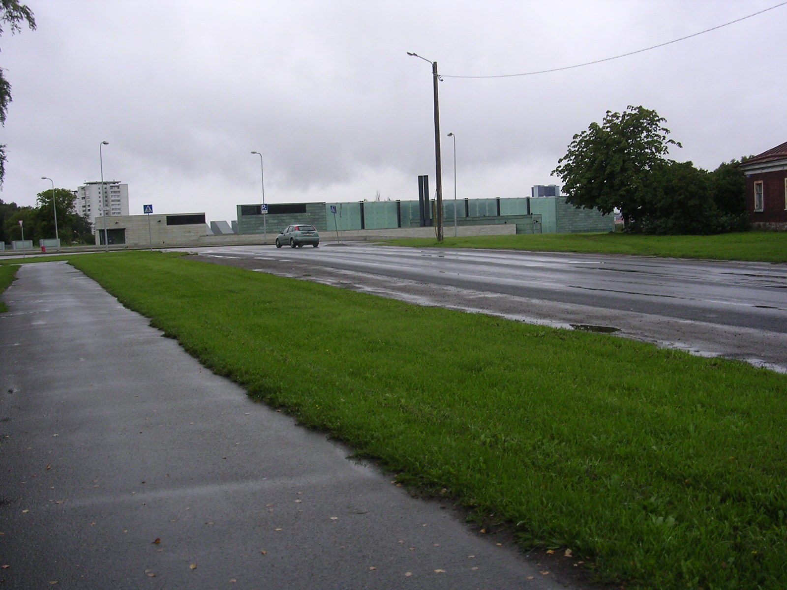 Valge street